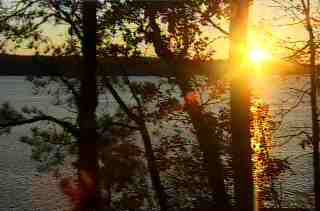 Photo By Mike Cline, December 3rd, 1996